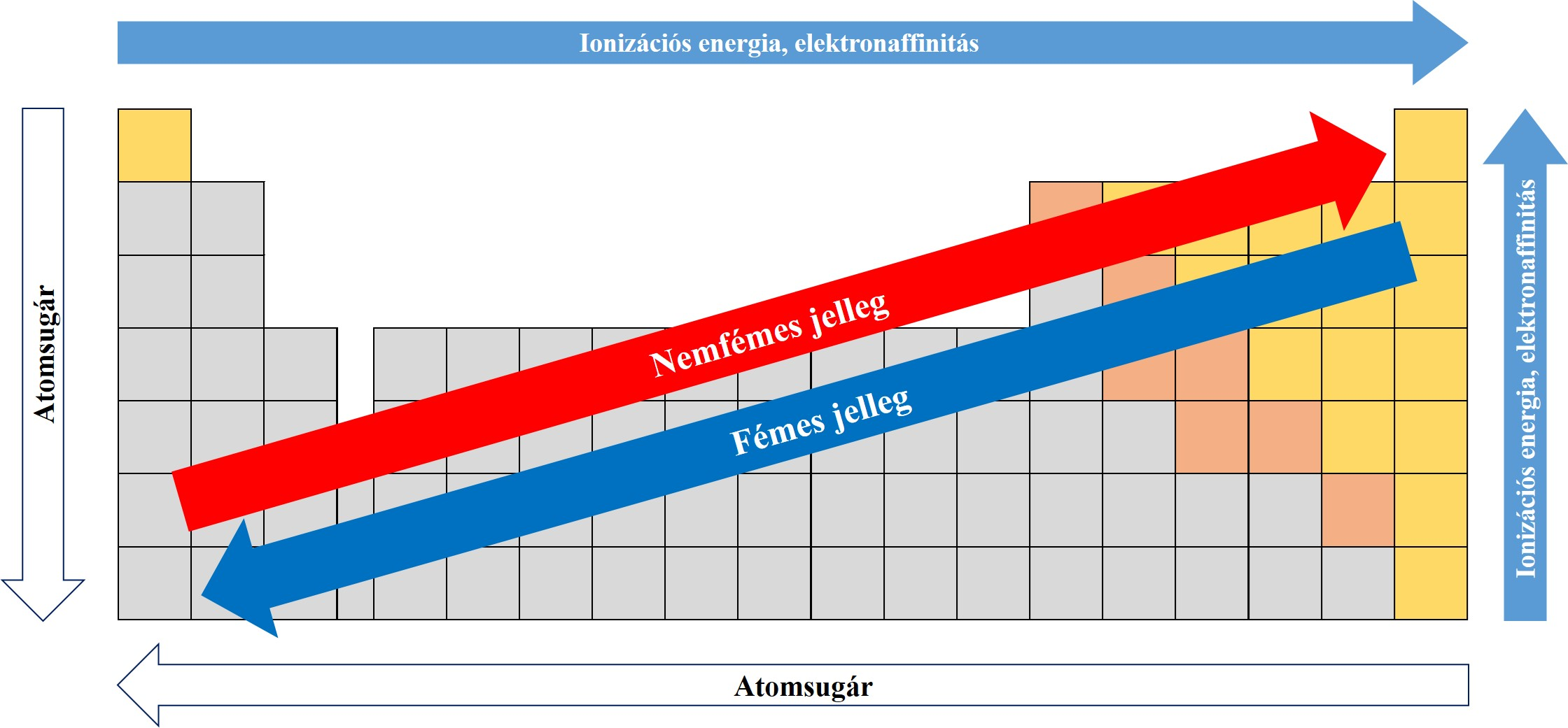 Various periodic trends